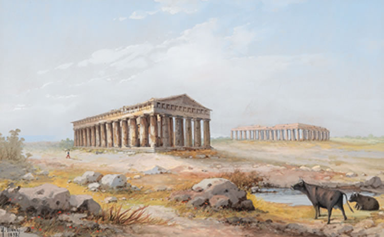 Temple of Paestum by Y. Gianni 1898